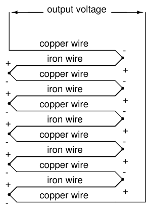 Thermopile composed of many thermocouples in series